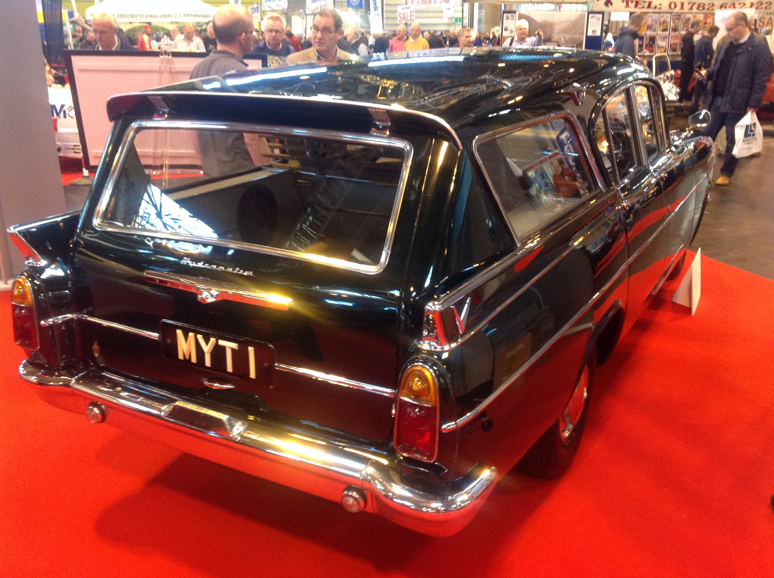 HM The Queen's Vauxhall Cresta Friary Estate; conversion by Friary Motors of Basingstoke (designed by E. D. Abbott Ltd of Farnham) (DVLA) no record